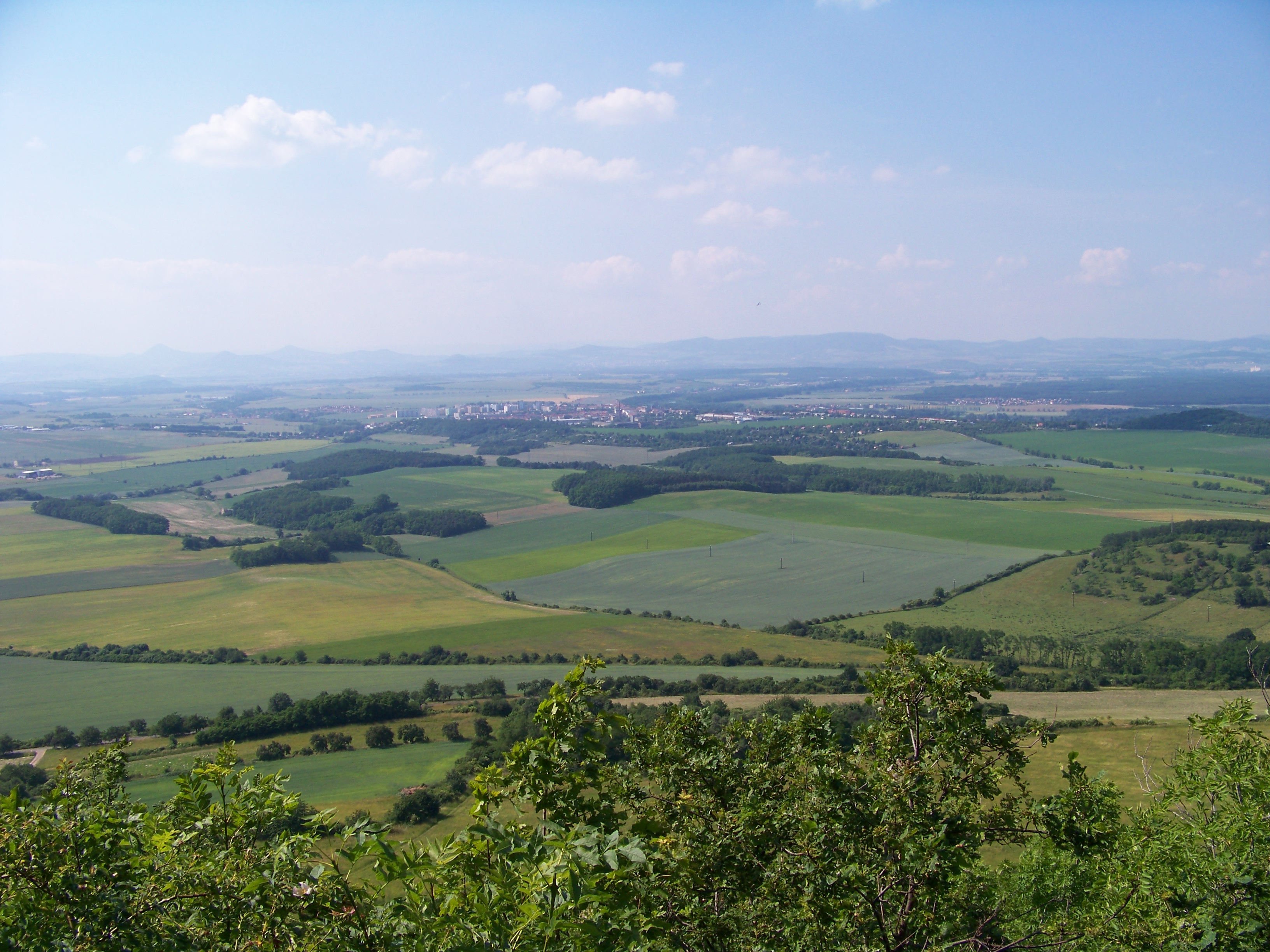 Roudnice nad Labem, Litoměřice District,Ústí nad Labem Region, the Czech Republic. A view from Říp Mountain.